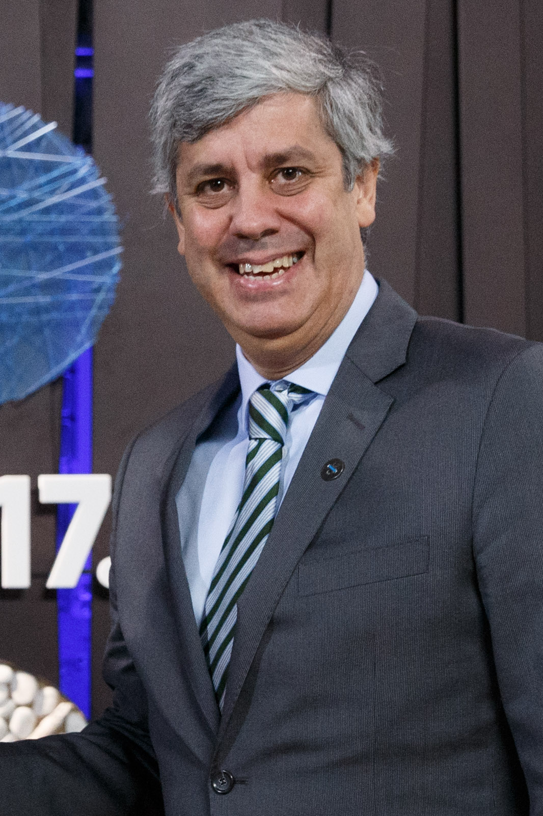 (l-r) Toomas Tõniste, Minister, Ministry of Finance, Estonia; Mário Centeno, Minister, Ministry of Finance, Portugal Photo: Raul Mee (EU2017EE)